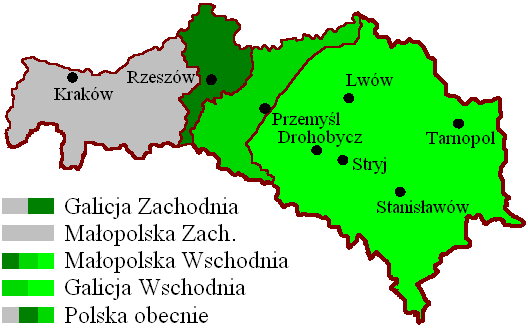 Territories of Galicja, West Galicja, East Galicja, West Małopolska and East Małopolska